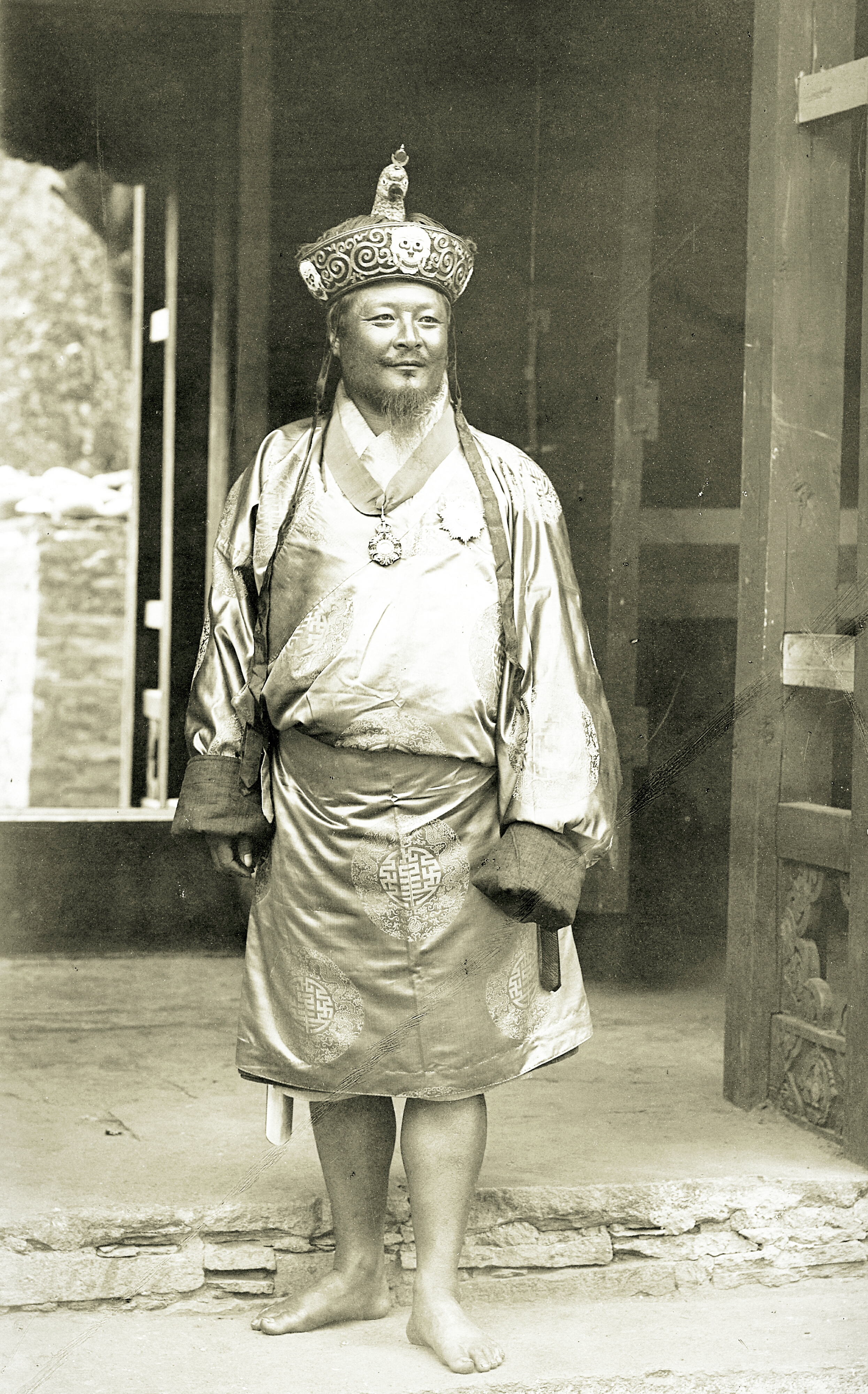 King Ugyen Wangchuck — in Punakha, the old capital of Bhutan, in 1905. Ugyen Wangchuck was the first King of Bhutan, from 1907 to 1926.